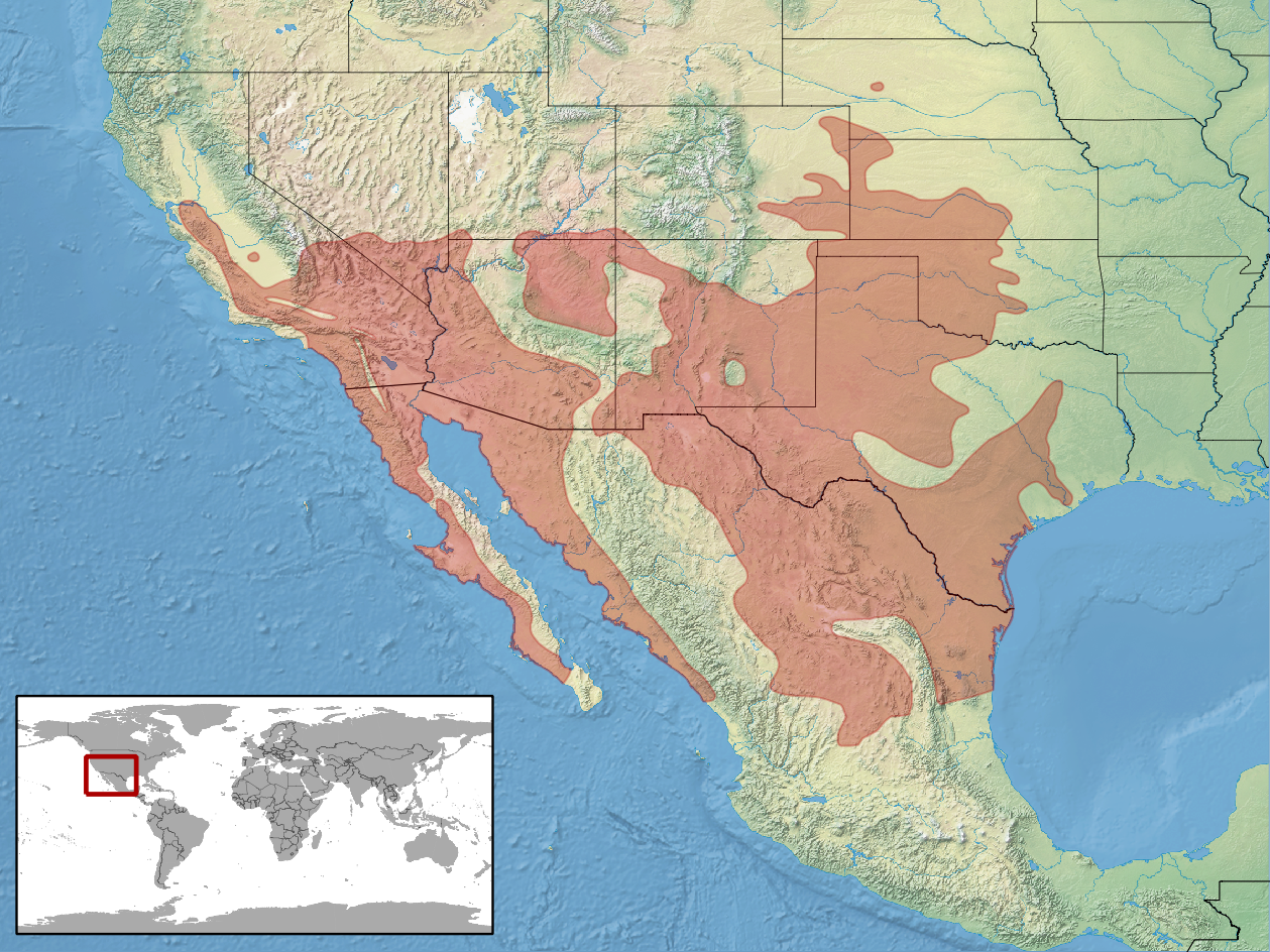 geographic distribution of Arizona elegans (Native: Mexico; United States); following RDB's definition considering A. pacata as conspecific.